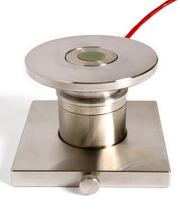 modified transient plane source thermal conductivity sensor